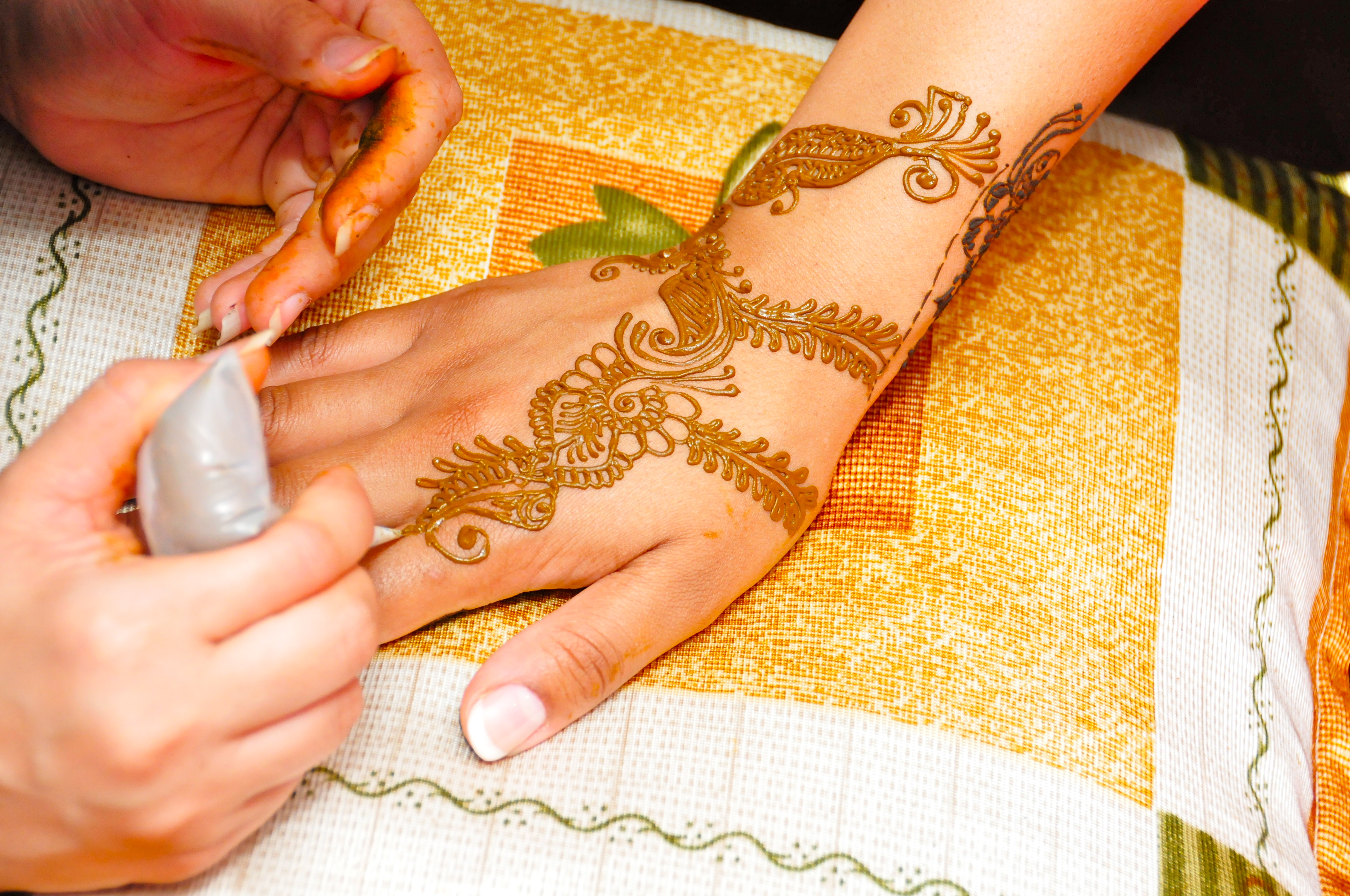 Applying Mehndi in hand